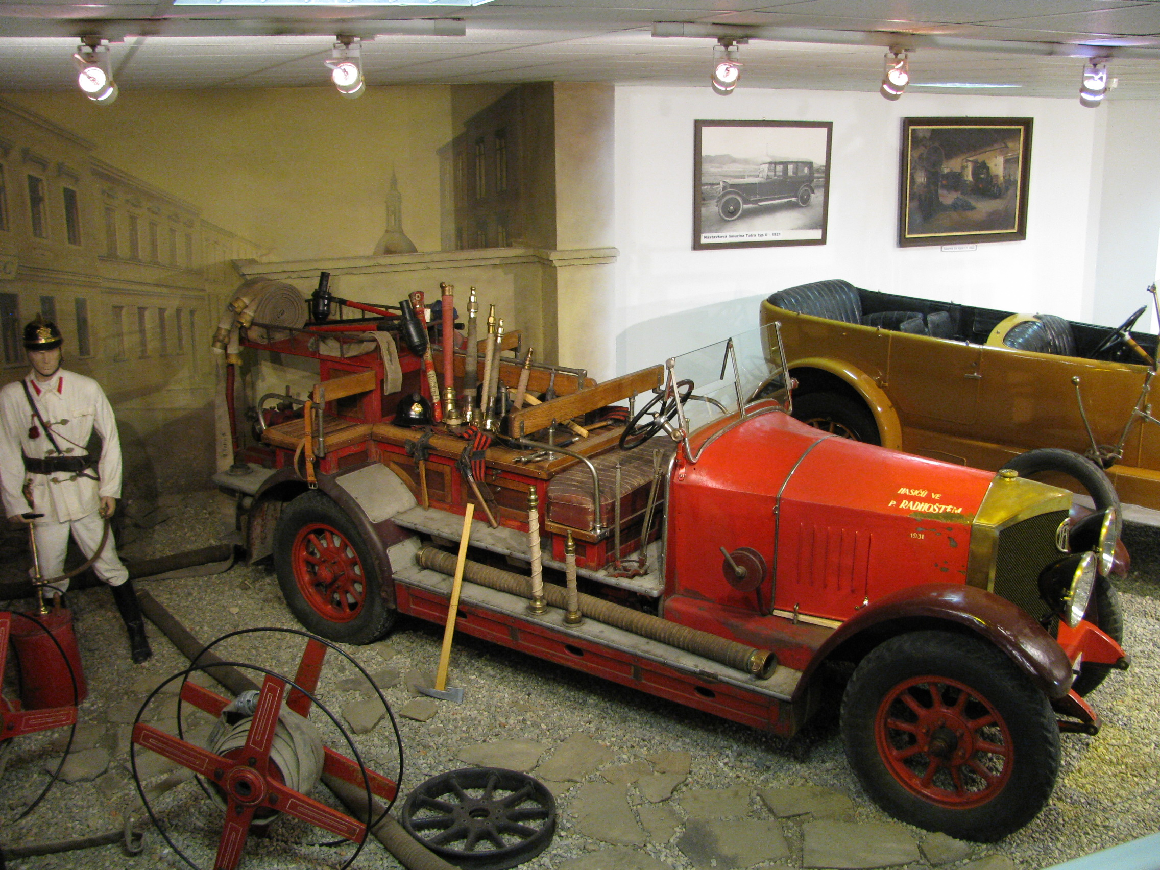 NW T fire engine in Tatra technical Museum, Kopřivnice, Czech Republic.